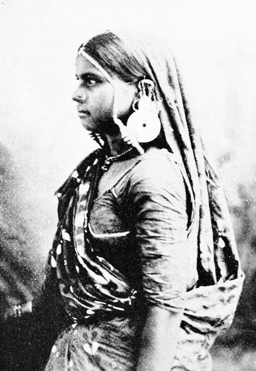 A Bhil beauty of India